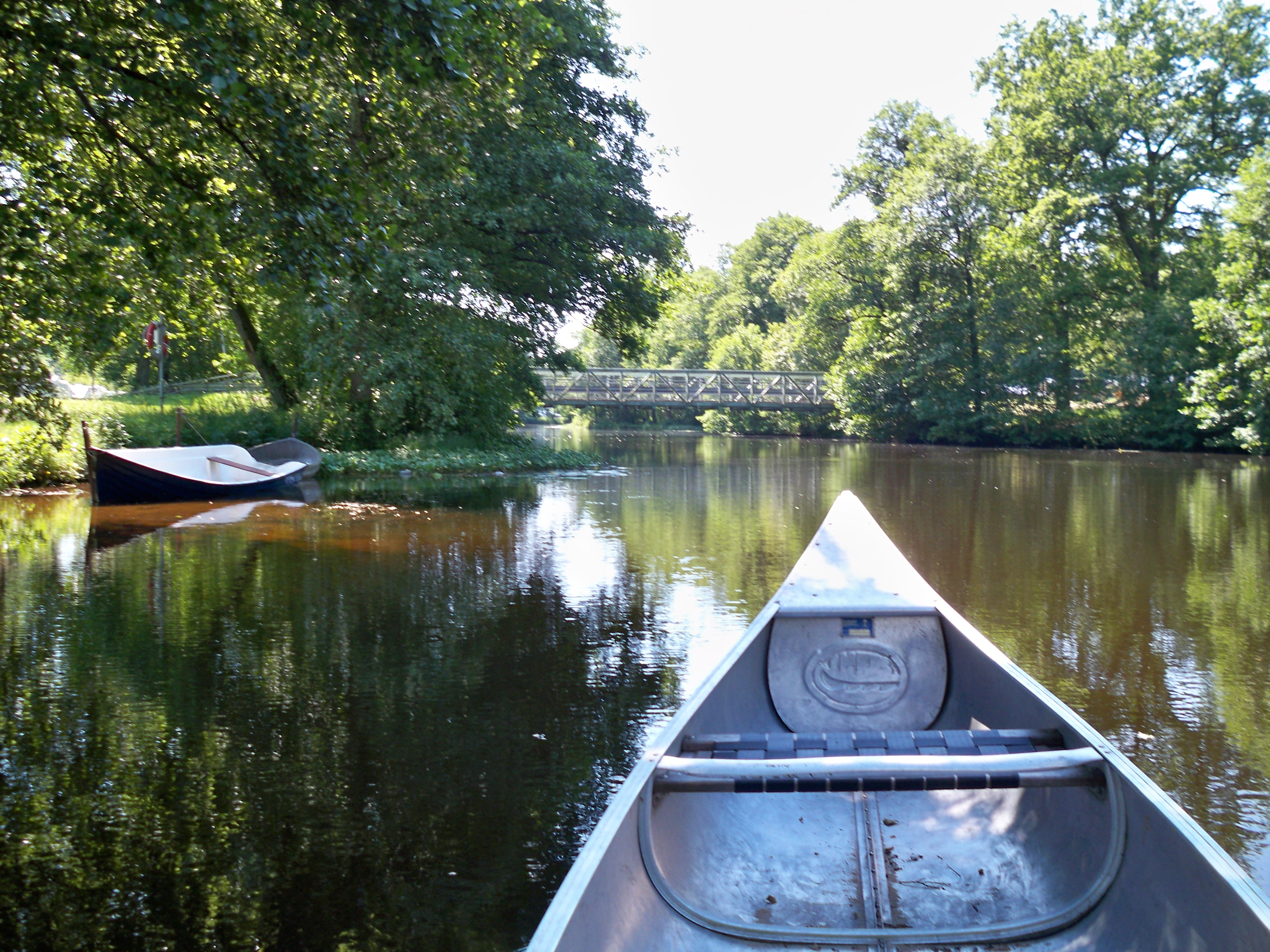 Viskan (Whisper River), where it runs through the city of Borås, Sweden.